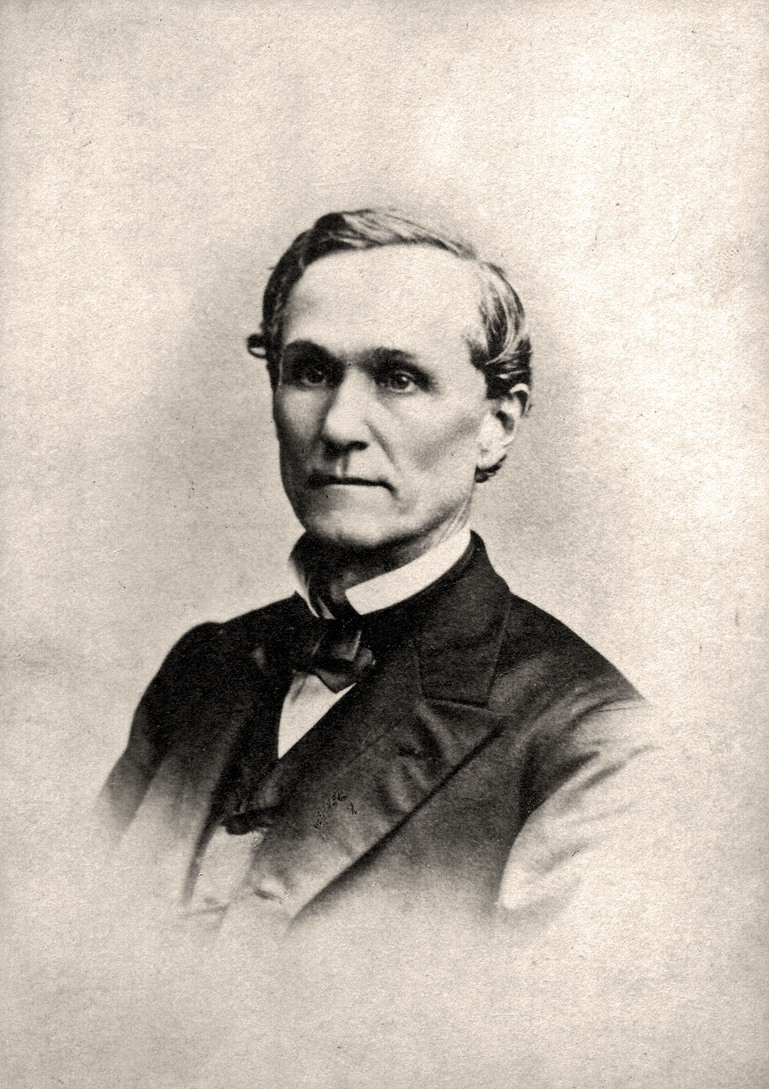 John Gill Shorter (1818–1872), governor of Alabama (1861–1863) and member of the Provisional Confederate Congress, Alabama Dept. of Archives and History